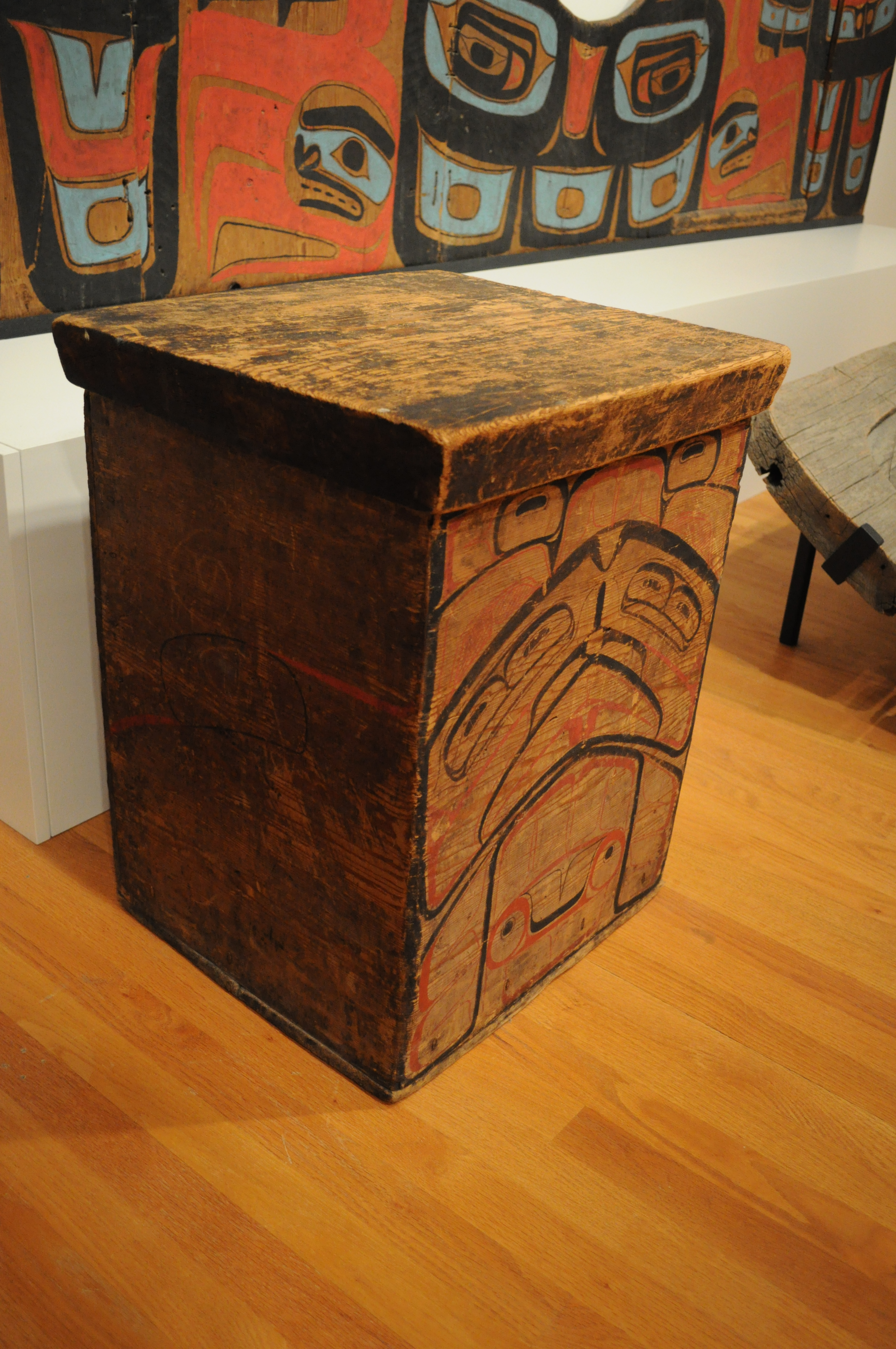 Bent-corner box; the piece part of which can be seen in the background here is known as the "Raven Screen".